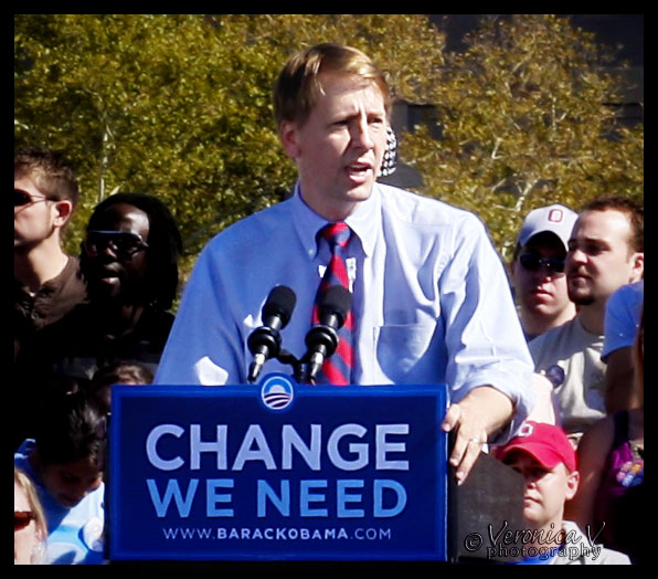 Richard Cordray running for Ohio Attorney General